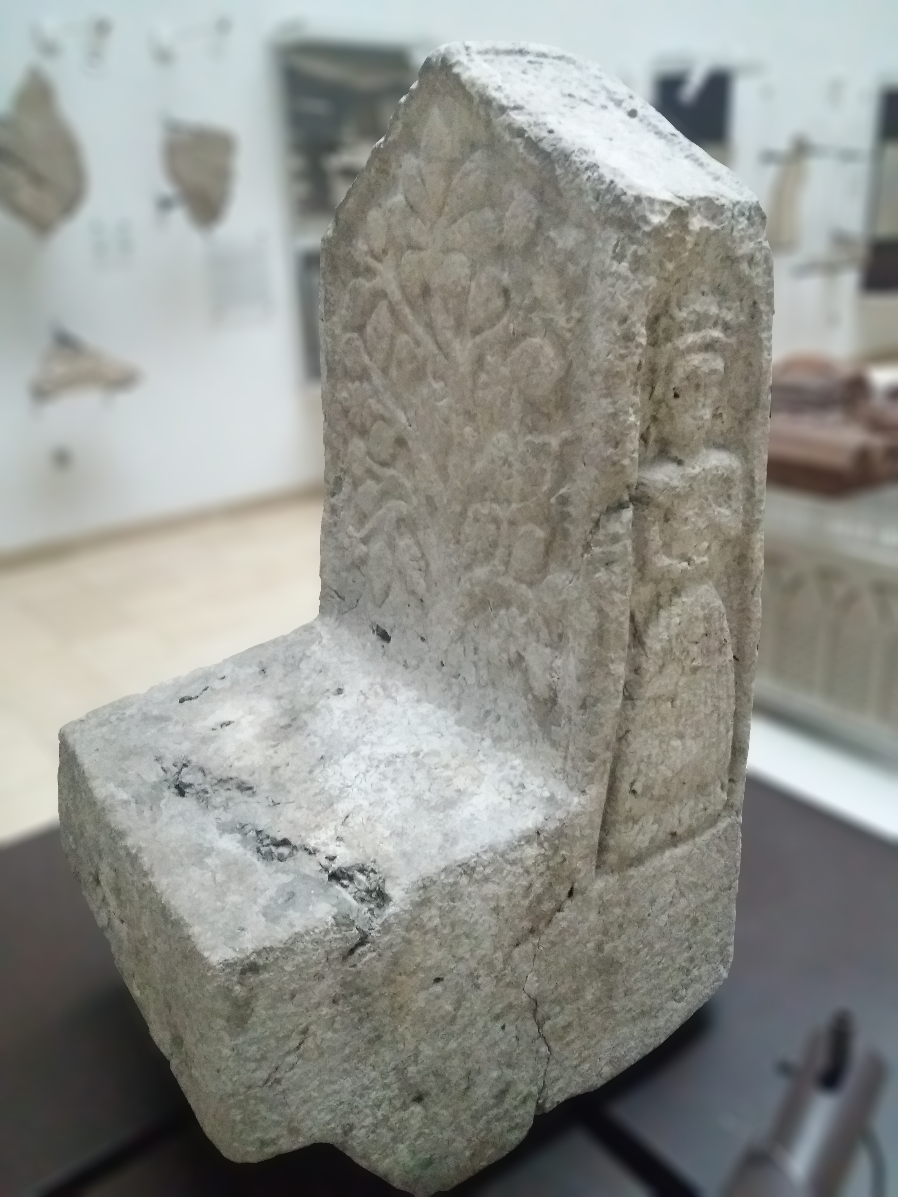 The royal and judge's seat of Queen Helen of Bosnia Srpskohrvatski / српскохрватски: Краљевска и судачка столица босанске краљице Јелене Грубе